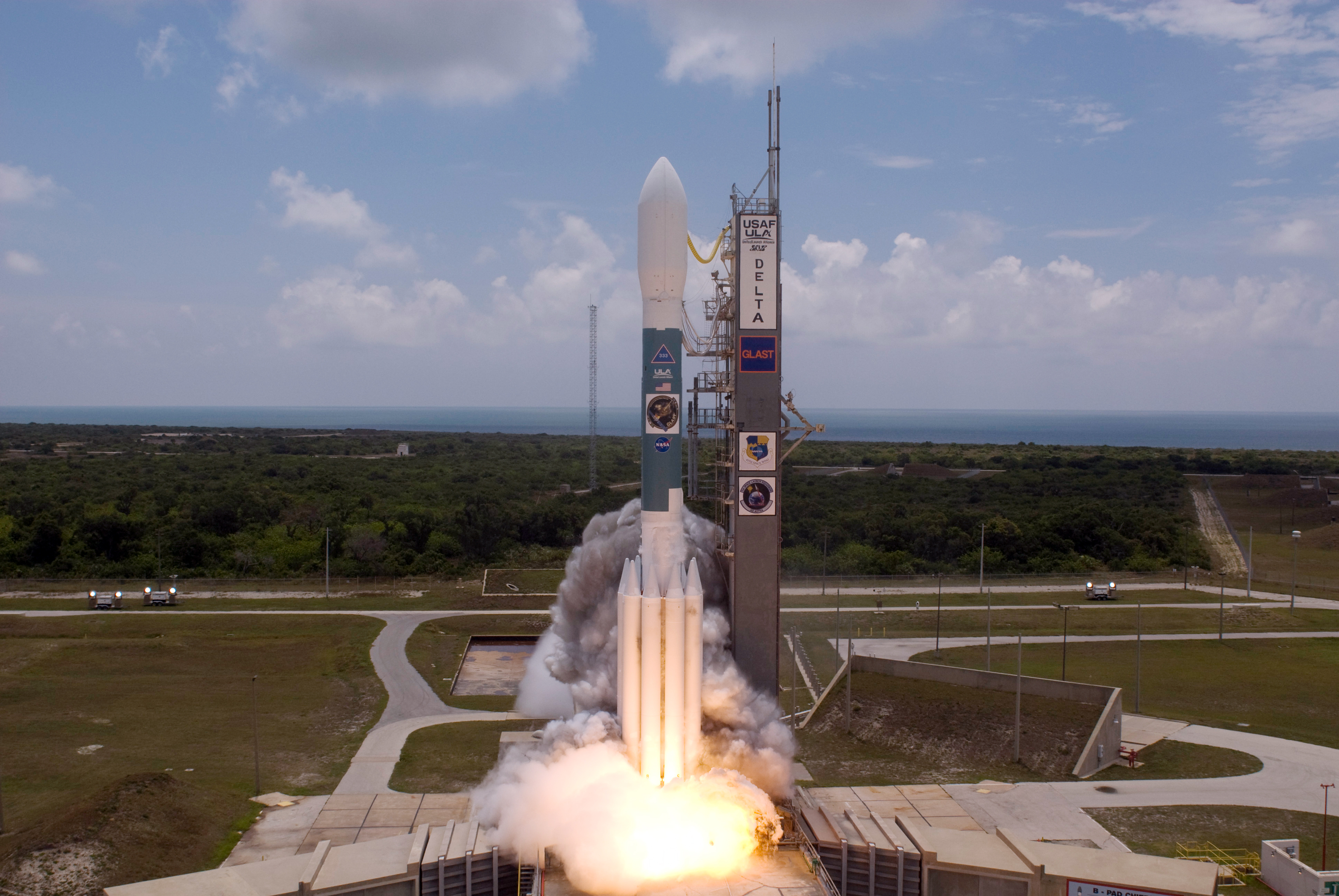 On Cape Canaveral Air Force Station's Launch Pad 17-B, flame and smoke mark the launch of the Delta II rocket with NASA's Gamma-Ray Large Area Space Telescope, or GLAST, aboard. In the background can be seen the blue Atlantic Ocean between the beach and the cloud-filled sky. Liftoff was at 12:05 p.m. EDT. GLAST is a powerful space observatory that will explore the universe's ultimate frontier, where nature harnesses forces and energies far beyond anything possible on Earth; probe some of science's deepest questions, such as what our universe is made of, and search for new laws of physics; explain how black holes accelerate jets of material to nearly light speed; and help crack the mystery of stupendously powerful explosions known as gamma-ray bursts.